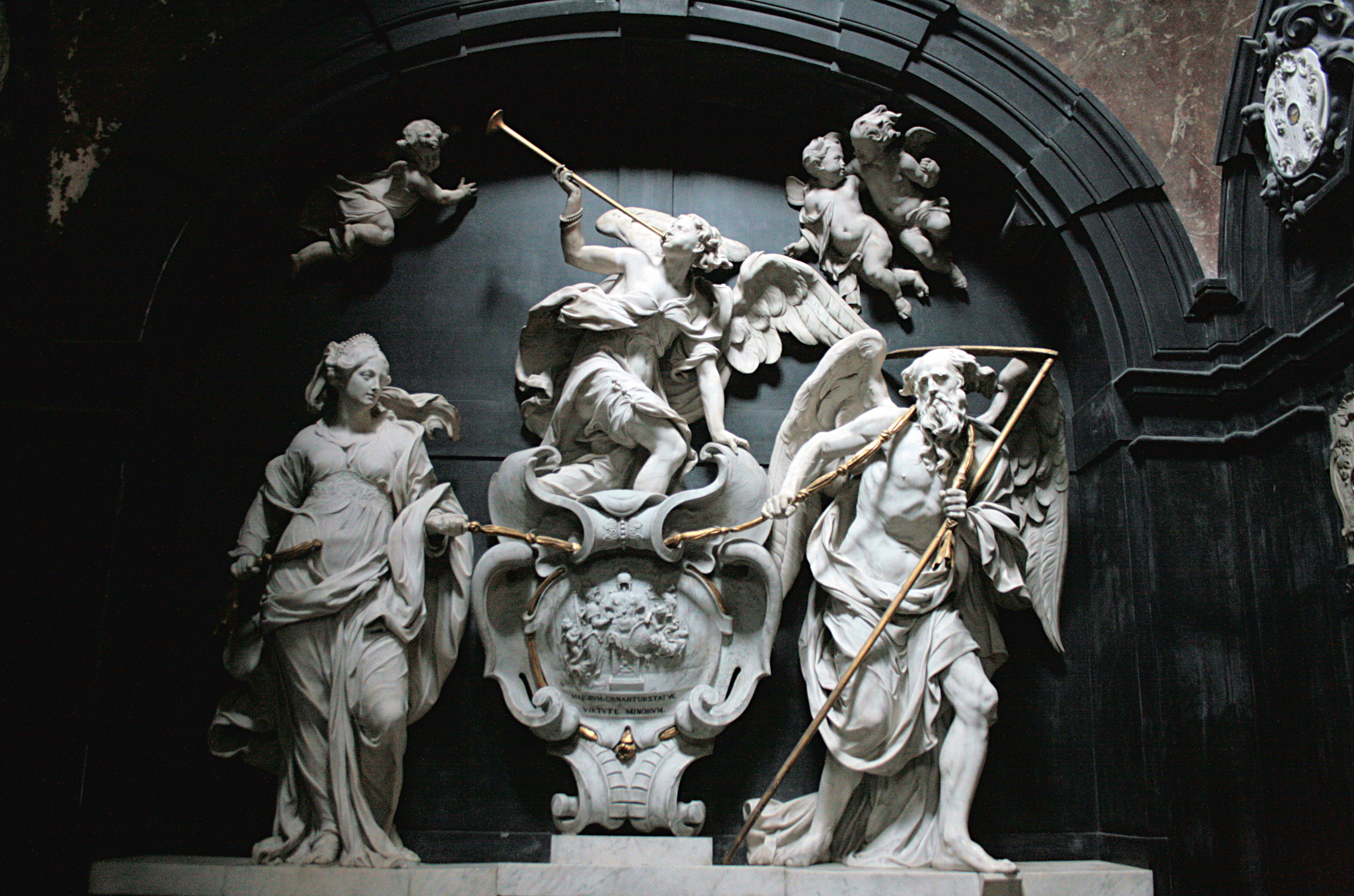 Sculpture from the funeral monument of Imperial Postmaster-General Lamoral II Claudius Francis Count of Thurn and Taxis by Mattheus van Beveren in the Zavel/Sablon Church in Brussels (1678).